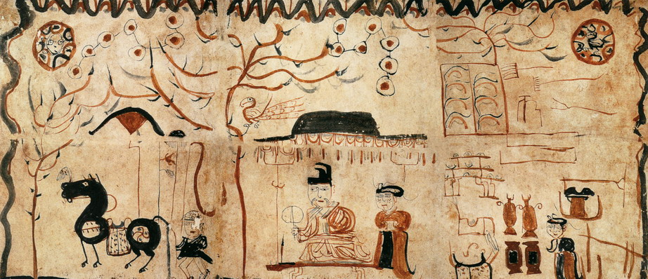 Paintings from Astana Graves. It depicts the living scene of a noble family in Eastern Jin Dynasty.